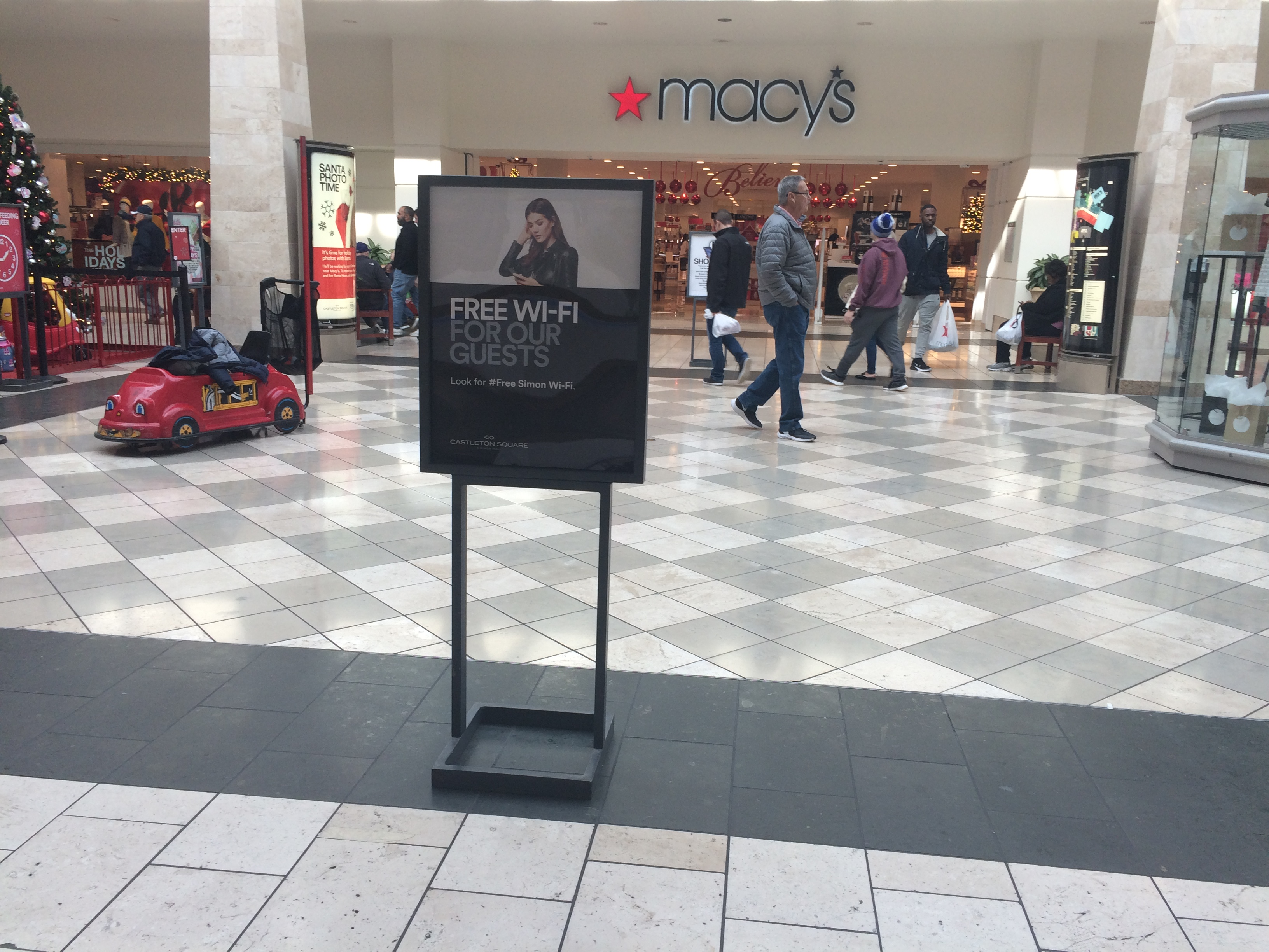 Macy's store at Castleton Square mall in Indianapolis, Indiana